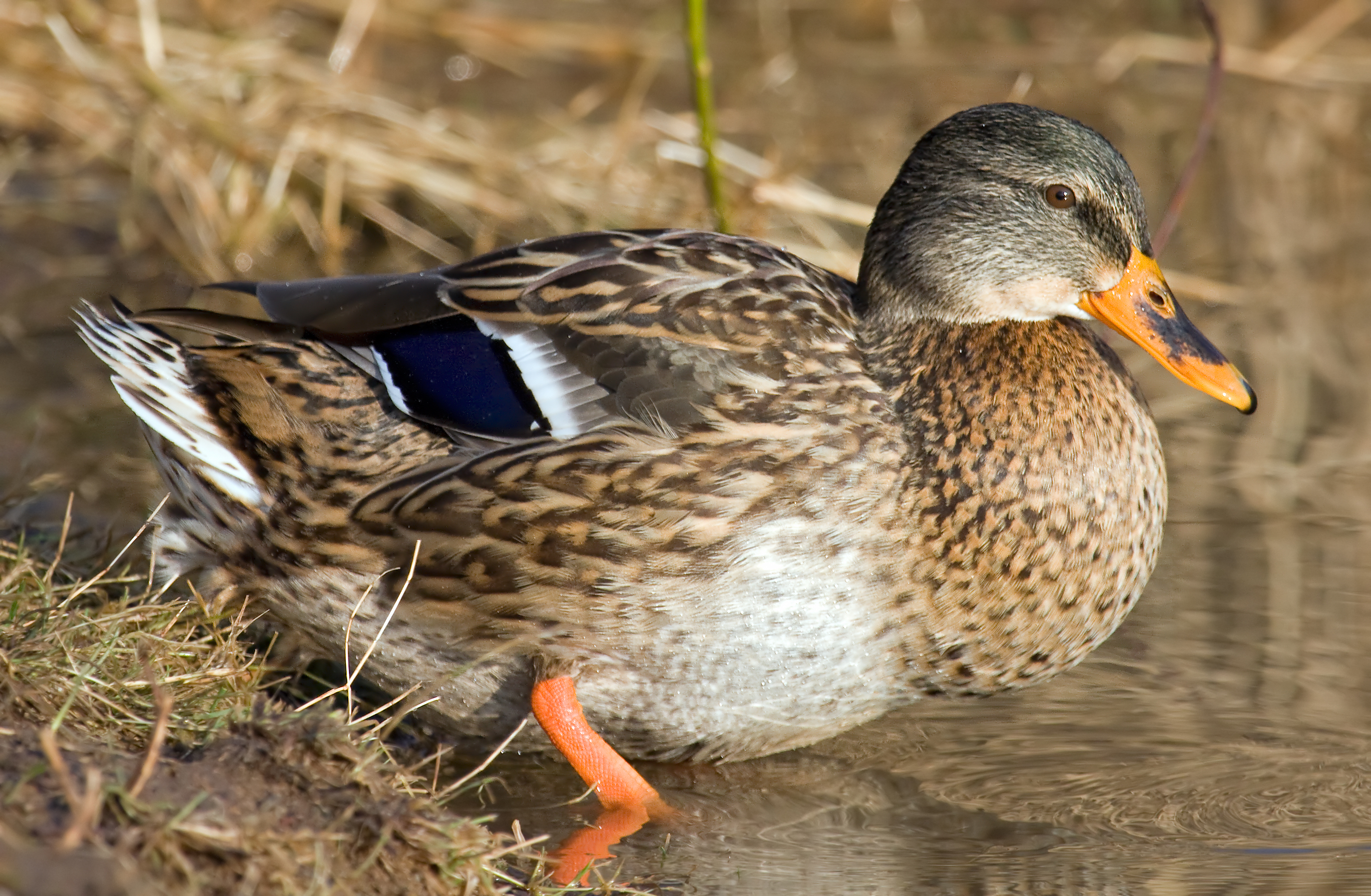 Anas platyrhynchos female (Lahn/Germany)